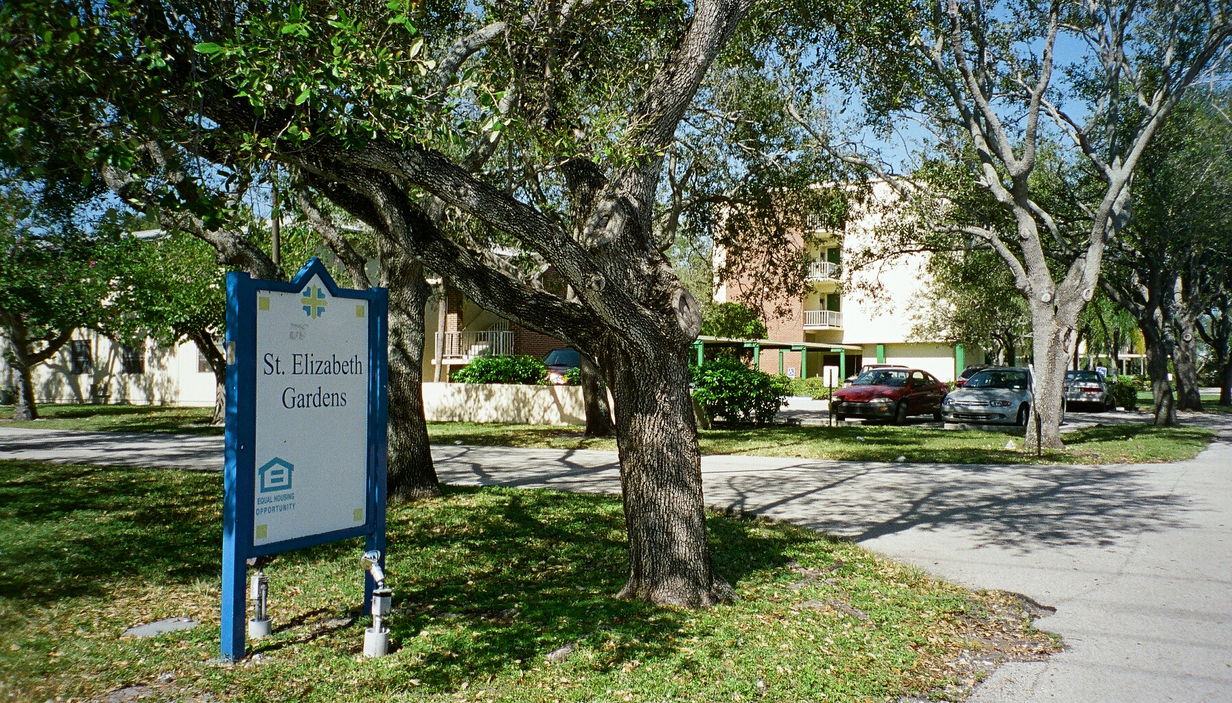 St Elizabeth Gardens, a home for the aged